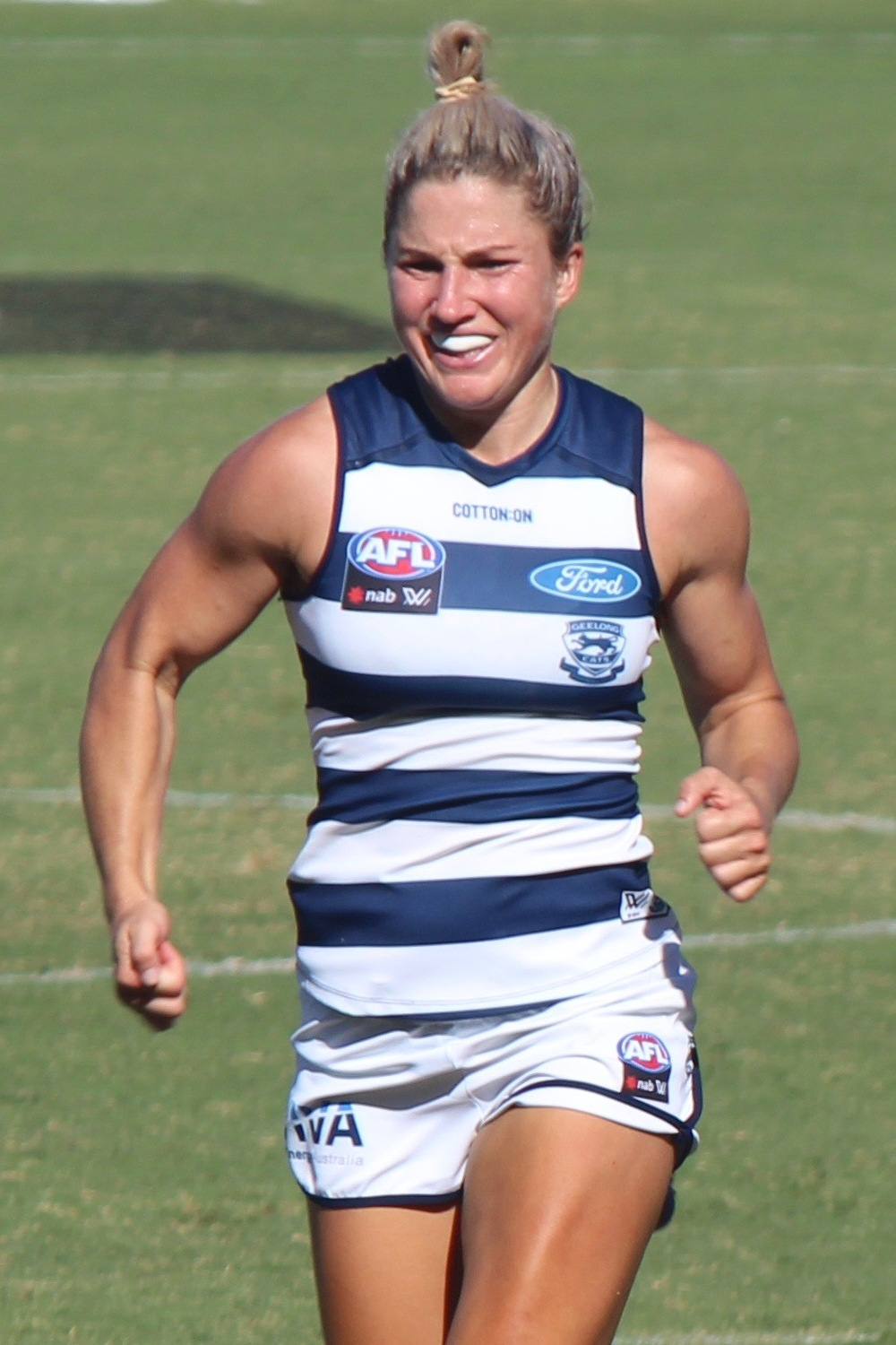 Melissa Hickey with Geelong during a match against Carlton at Kardinia Park in round 4 of the 2019 AFL Women's season.